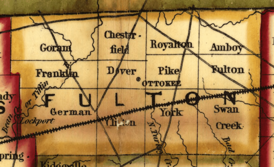 excerpt of an 1851 railroad map showing ottokee as fulton county seat